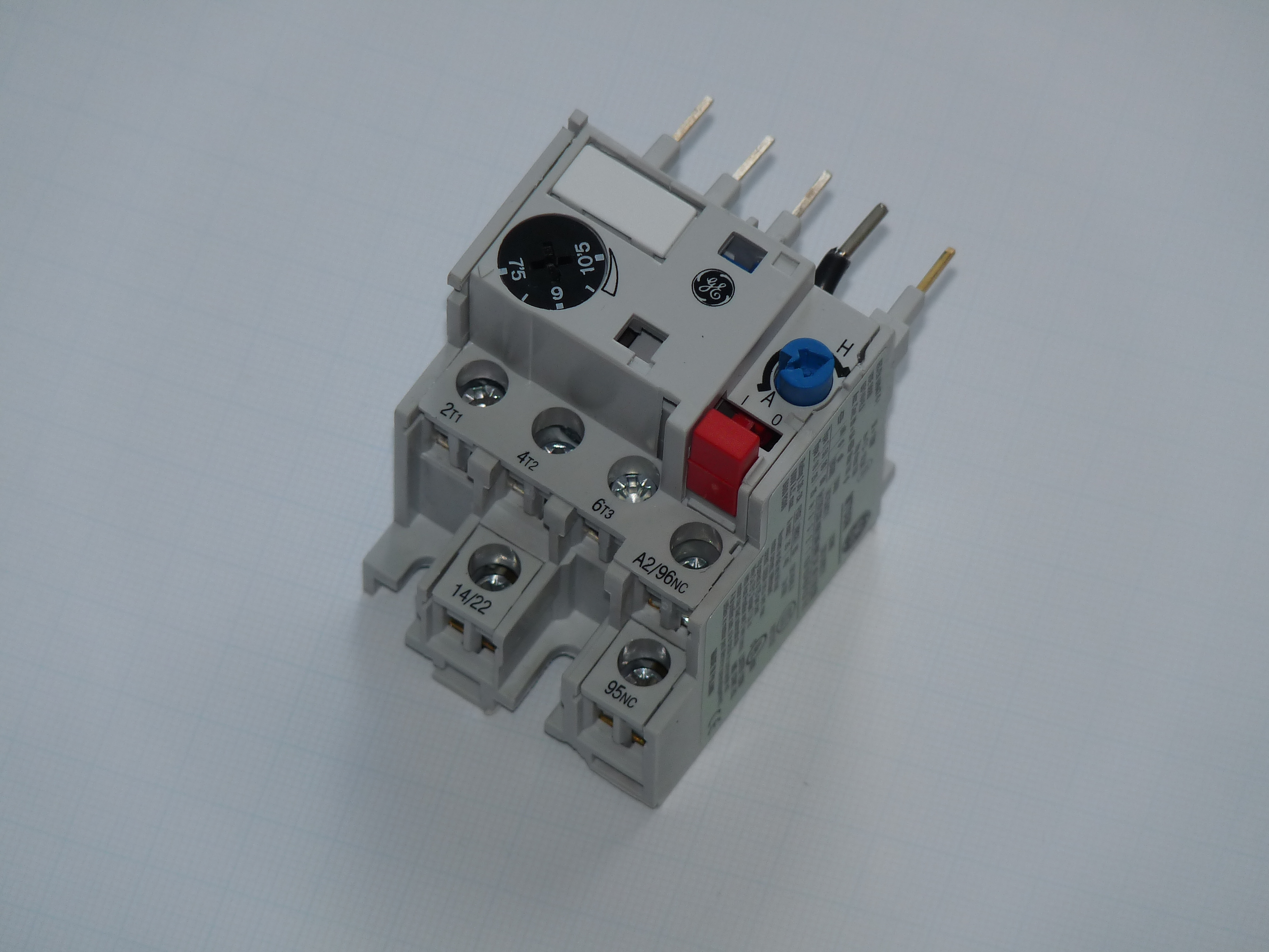 GE overload thermal relay